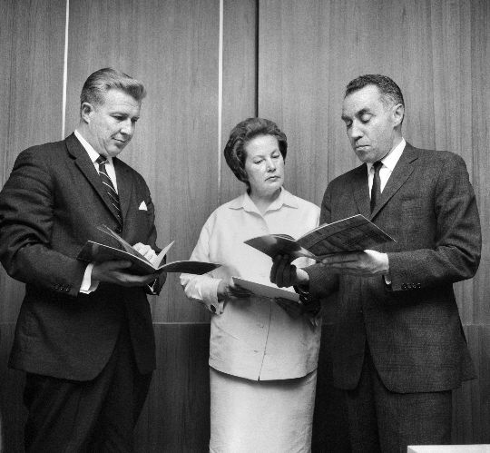 Photograph of the Finnish bank manager Jaakko Lassila (1928–2003), Marimekko’s manager Armi Ratia (1912–1979) and bank manager Klaus Waris (1914–1994).